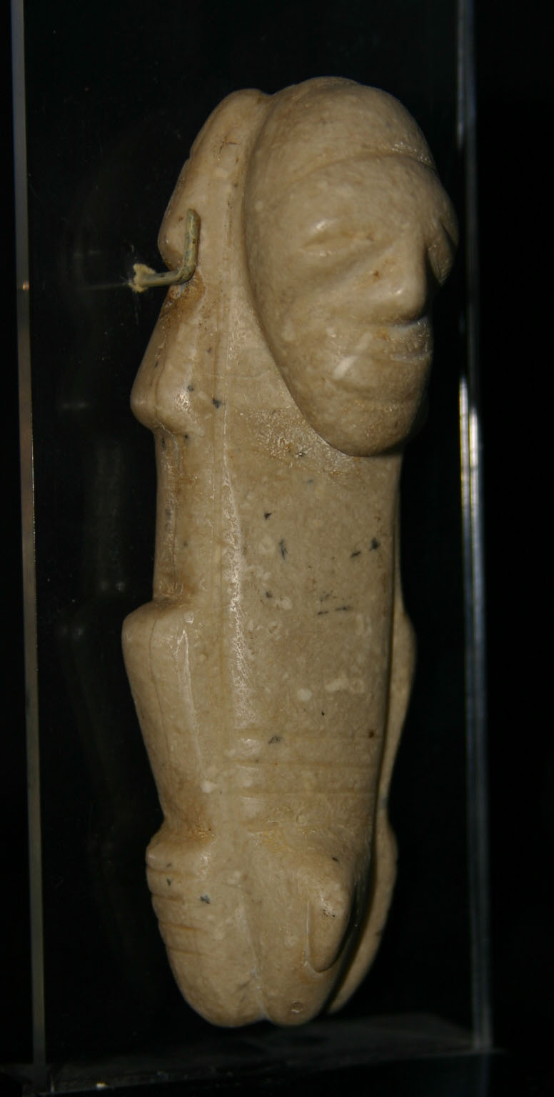 Taino zemi